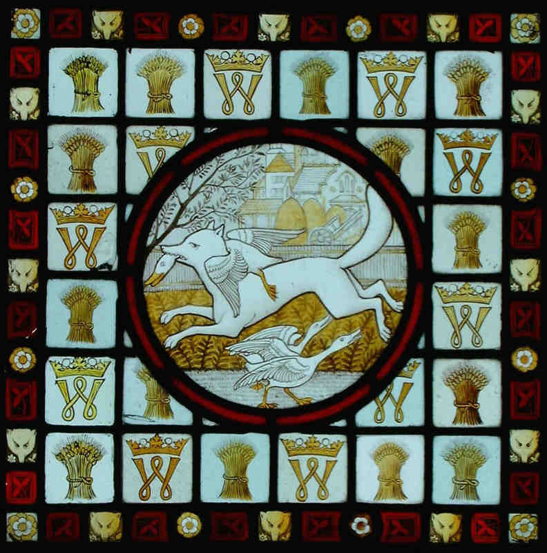 Reynard the Fox with geese, stained glass by Clement James Heaton (1824-82)